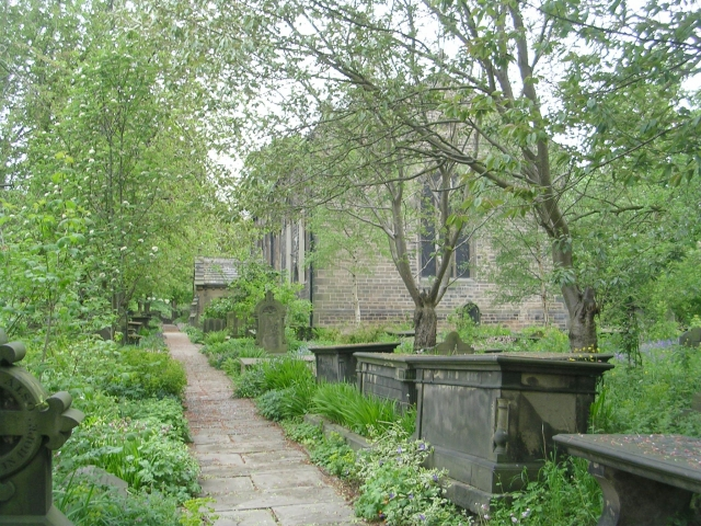 Whitechapel Church - Whitechapel Road, Cleckheaton, West Yorkshire, England.